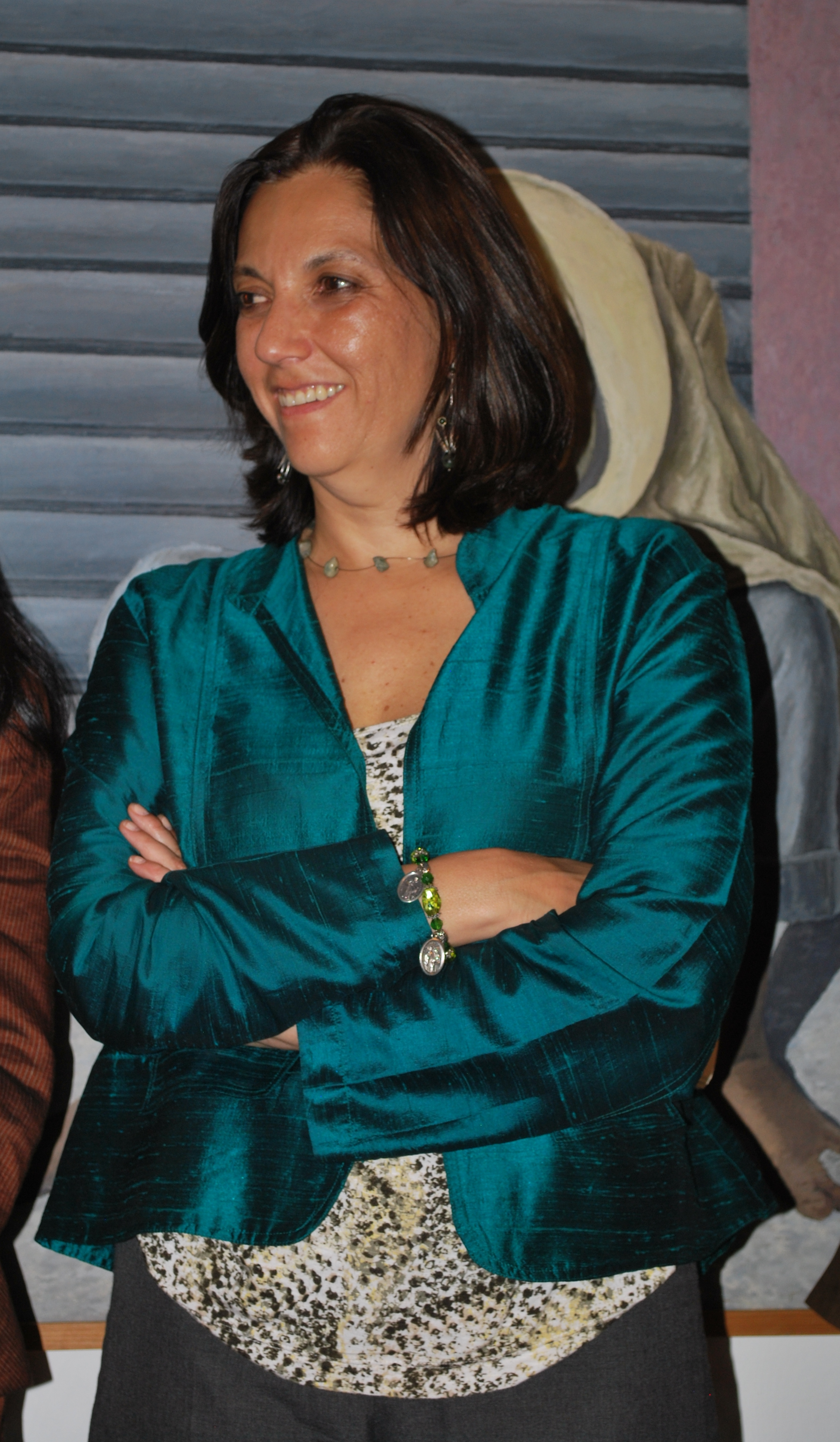 Teresa Vicencio Alvarez at the opening of an exhibit in honor of her father landscape painter Nicolás Moreno at the Salón de la Plástica Mexicana in Colonia Roma, Mexico City